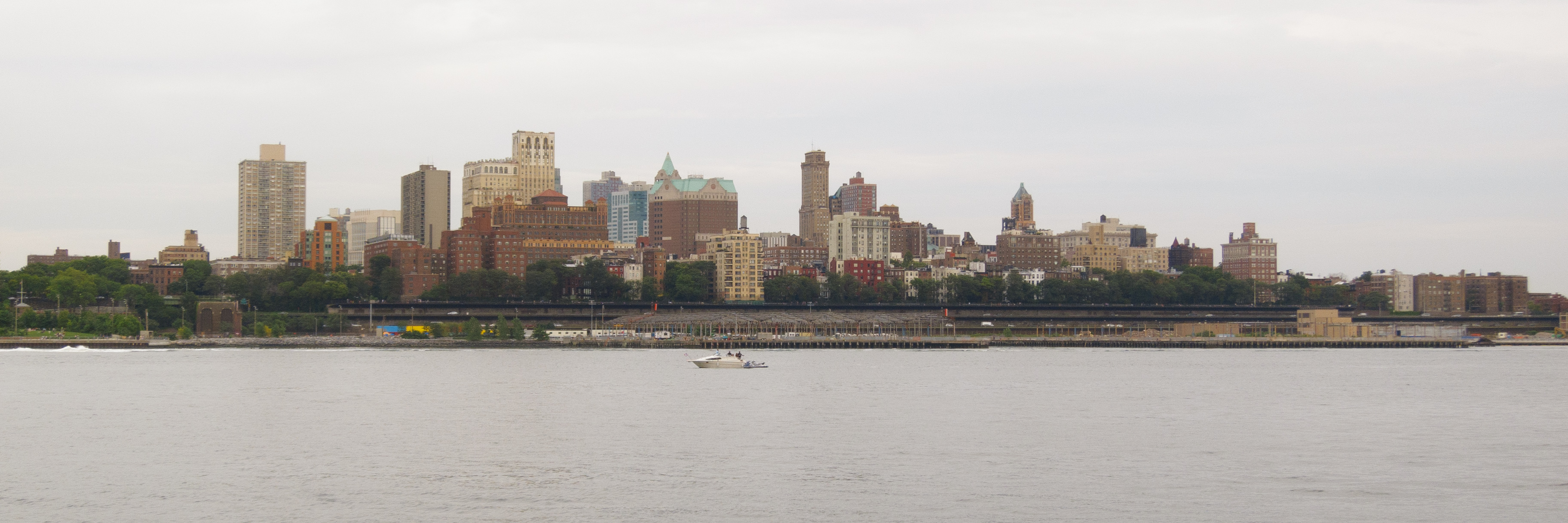 The skyline of Downtown Brooklyn, New York City.